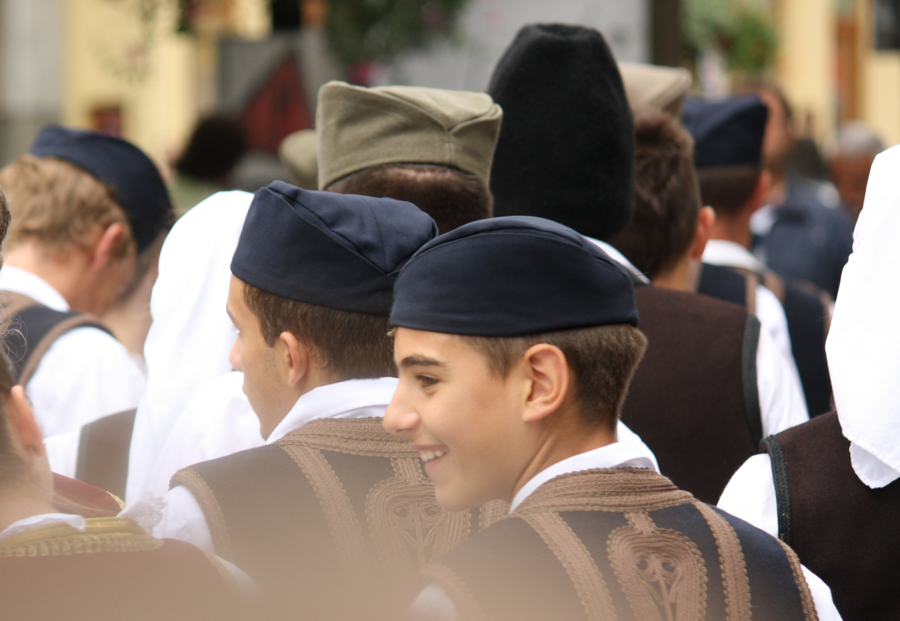 7th international folklore festival "Pražský jarmark" - serbian folk dancers with šakjača hats at Celetná street in Prague are waiting for their performance to begin